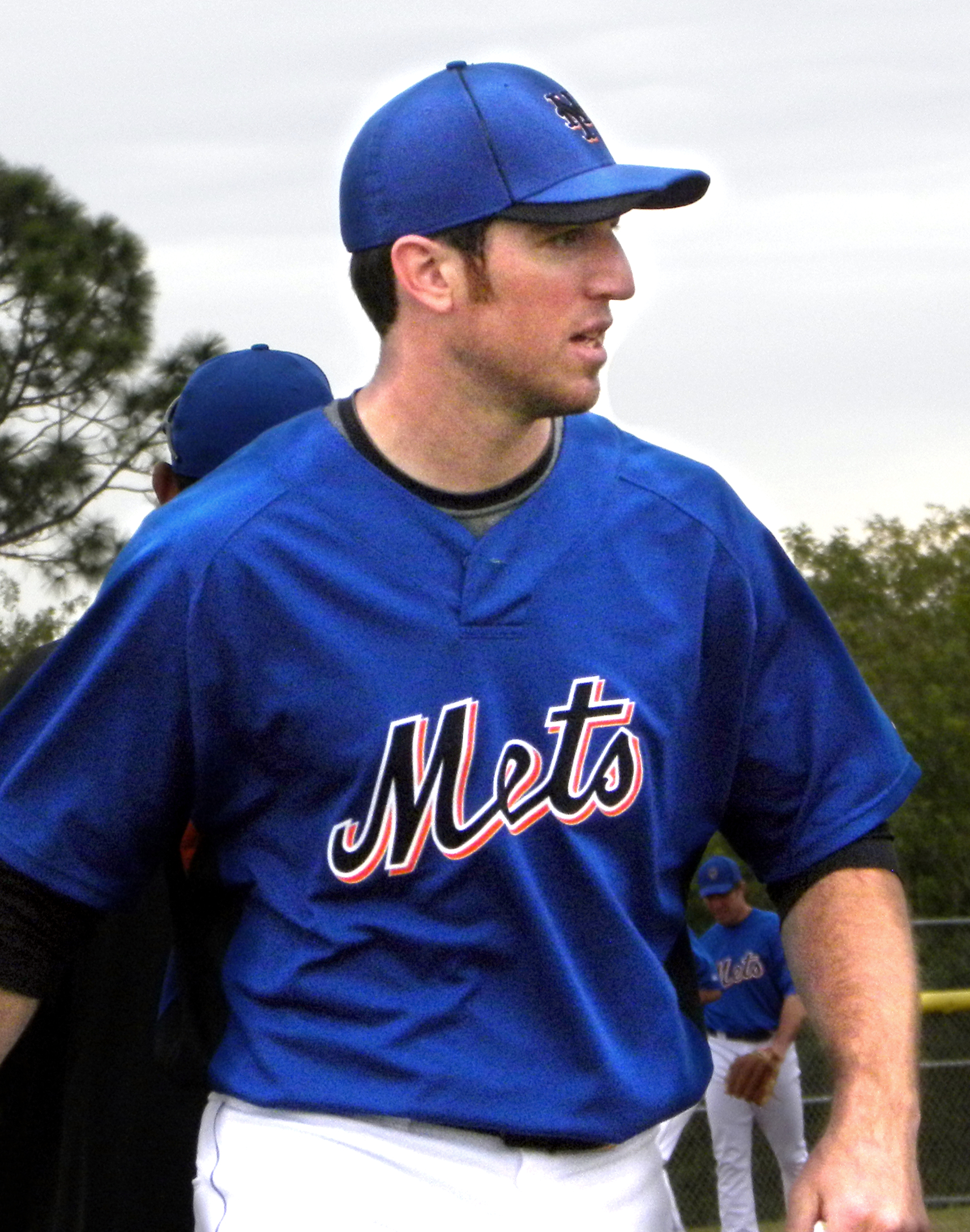 Description Ike Davis Date27 February 2010SourceAuthorslgcPermission (Reusing this file) Other versions 15:12, 17 May 2010 . . Epeefleche . . 644×579 (53 KB) Ike Davis